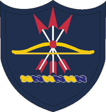 Background: The shoulder sleeve insignia was originally approved for Headquarters and Headquarters Detachment, North Dakota National Guard on 3 April 1950. It was redesignated on 30 December 1983, for Headquarters, State Area Command, North Dakota Army National Guard.